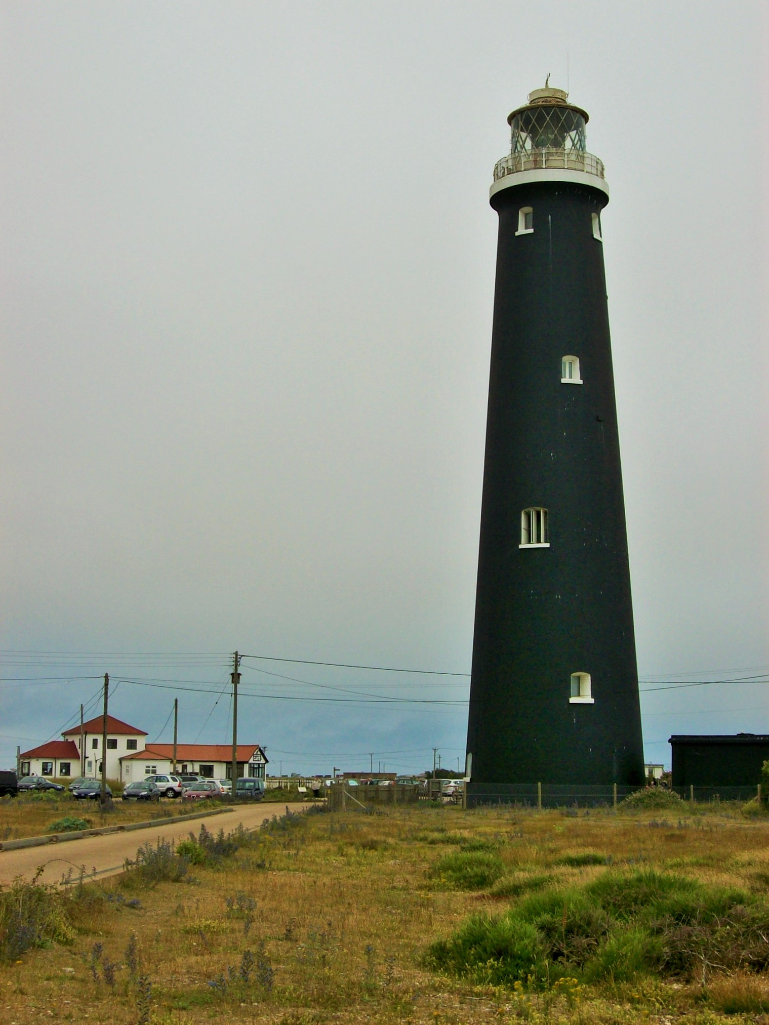 Old lighthouse, Dungeness